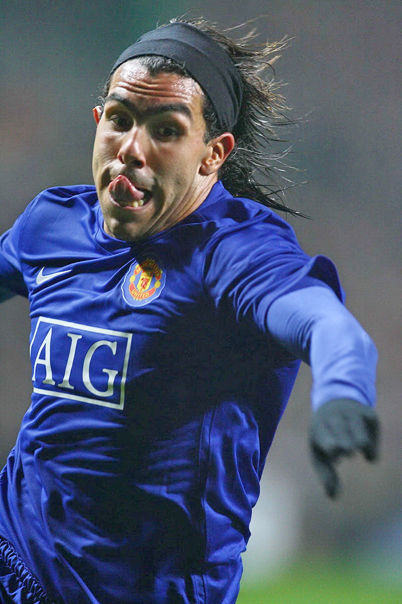 NOVEMBER 5, 2008 - Football : Carlos Tevez of Manchester United during the UEFA Champions League Group E match between Celtic and Manchester United at Celtic Park on November 5, 2008 in Glasgow, Scotland. (Photo by Tsutomu Takasu).